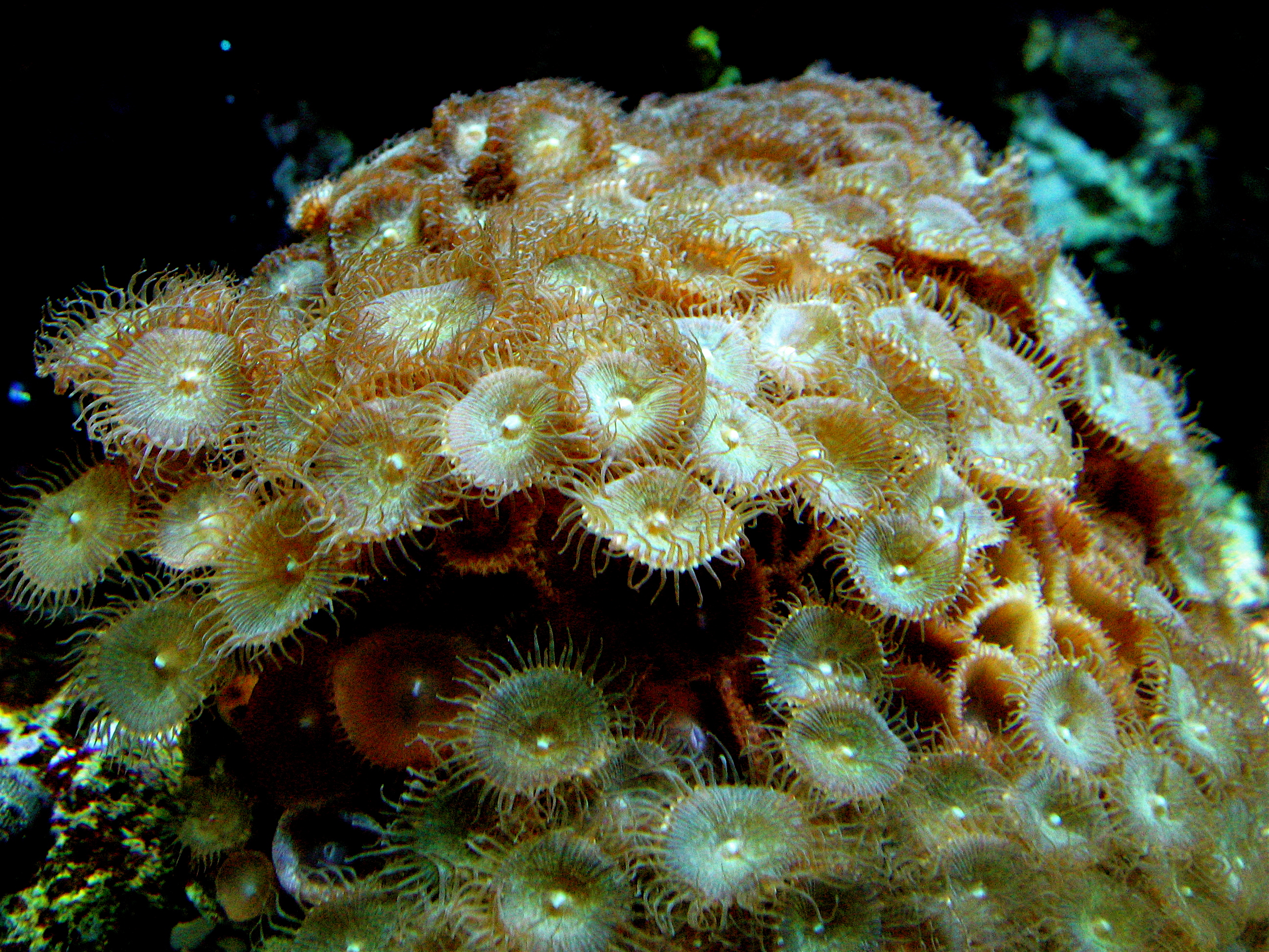 Protopalythoa, button polyp corals.